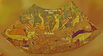 Tapestry of the Creation. Detail of the creation of birds and fishes. Work of the XI-XII century